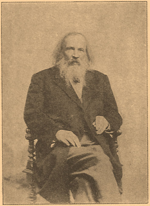 Photo-portrait of Russian chemist Dmitri Ivanovich Mendeleyev, from Brockhaus and Efron Encyclopedic Dictionary (1890—1907)